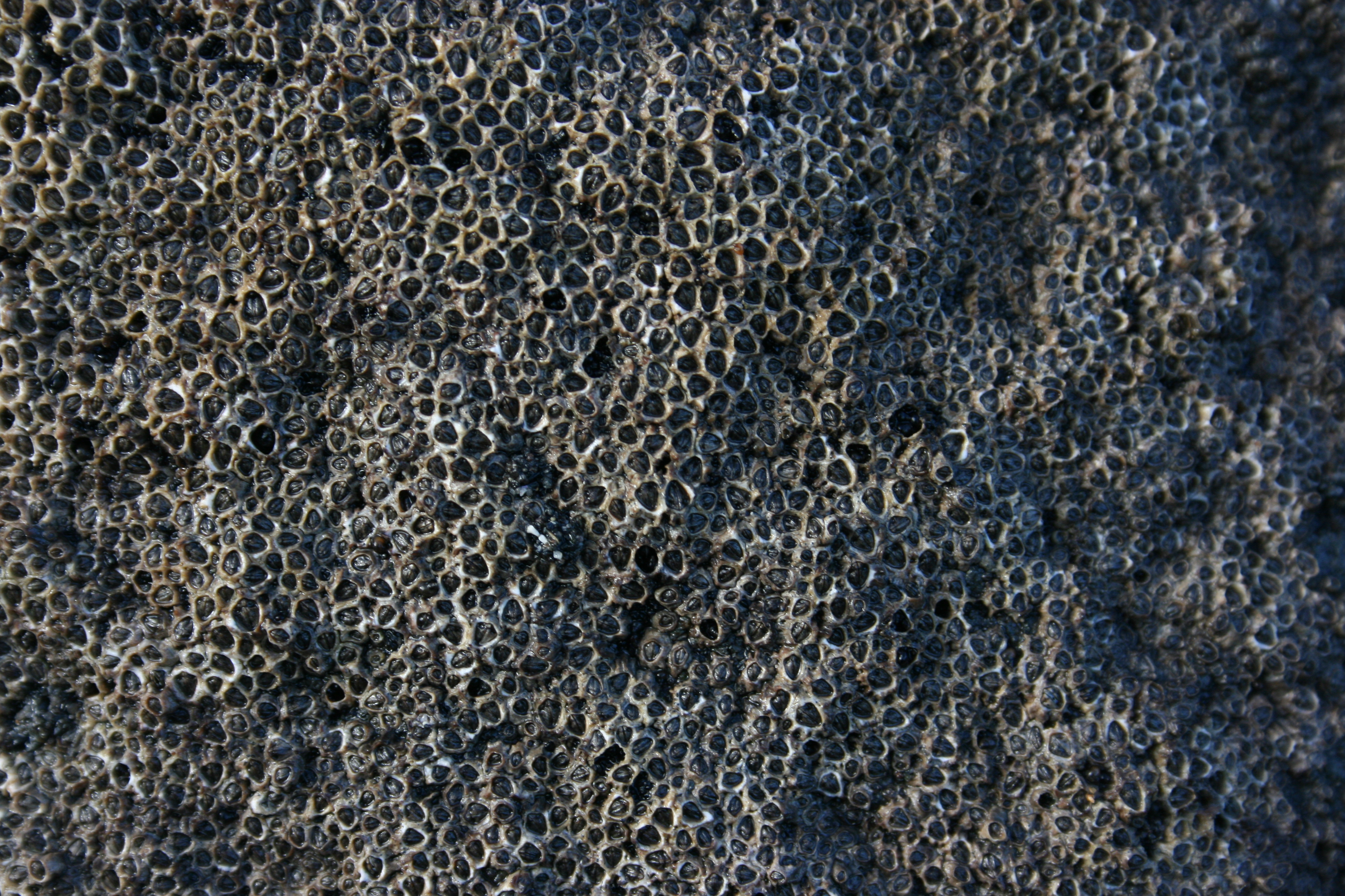 Chamaesipho columna, view of crowded colony in situ